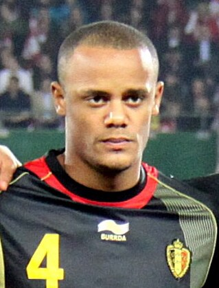 Vincent Kompany, cropped from Belgium against the Austrian national football team (0:2), 2011-03-25 in Vienna (Ernst-Happel-Stadion